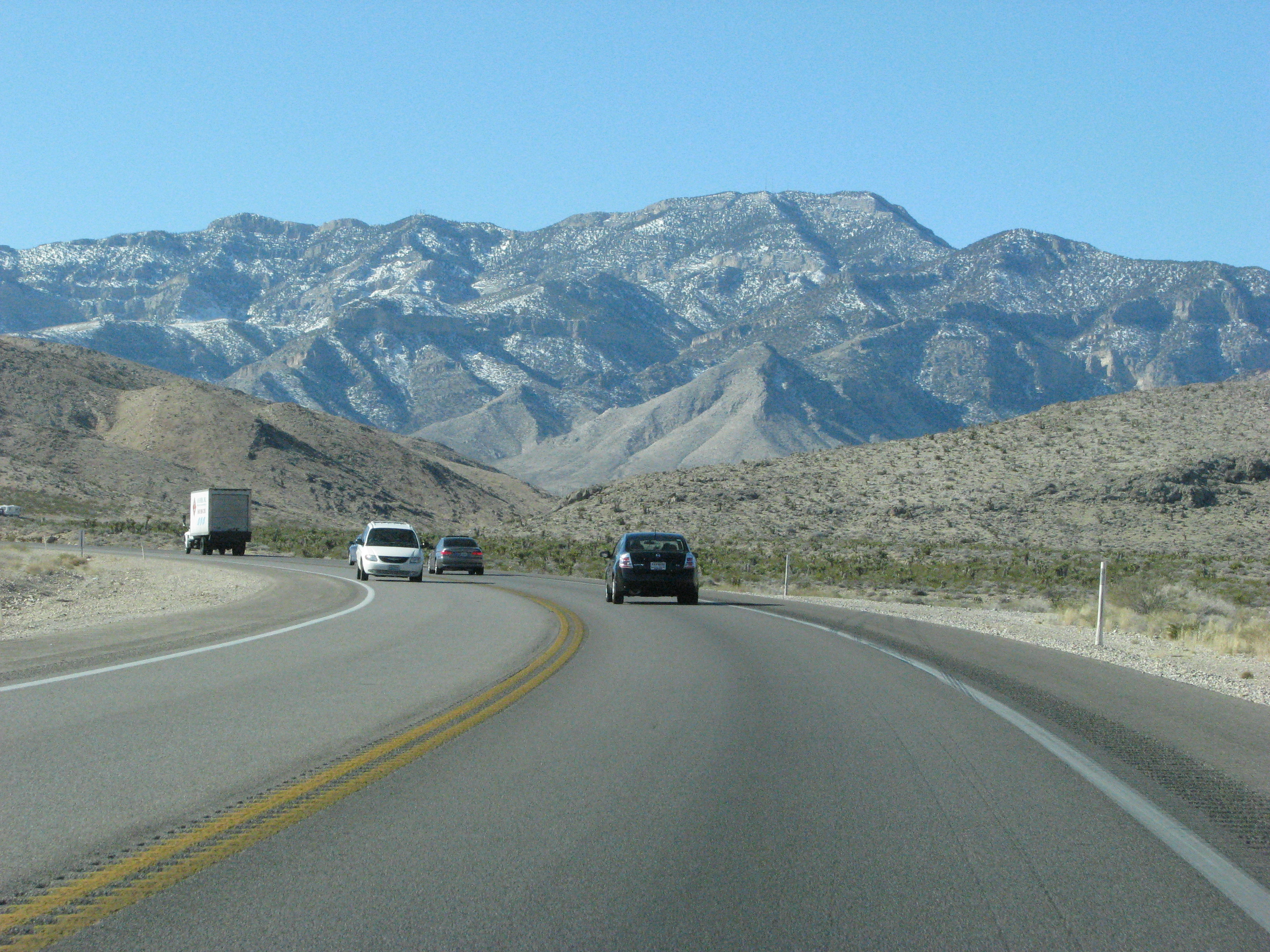 Nv-160 (north/westbound) somewhere between Las Vegas and Mountain Springs.